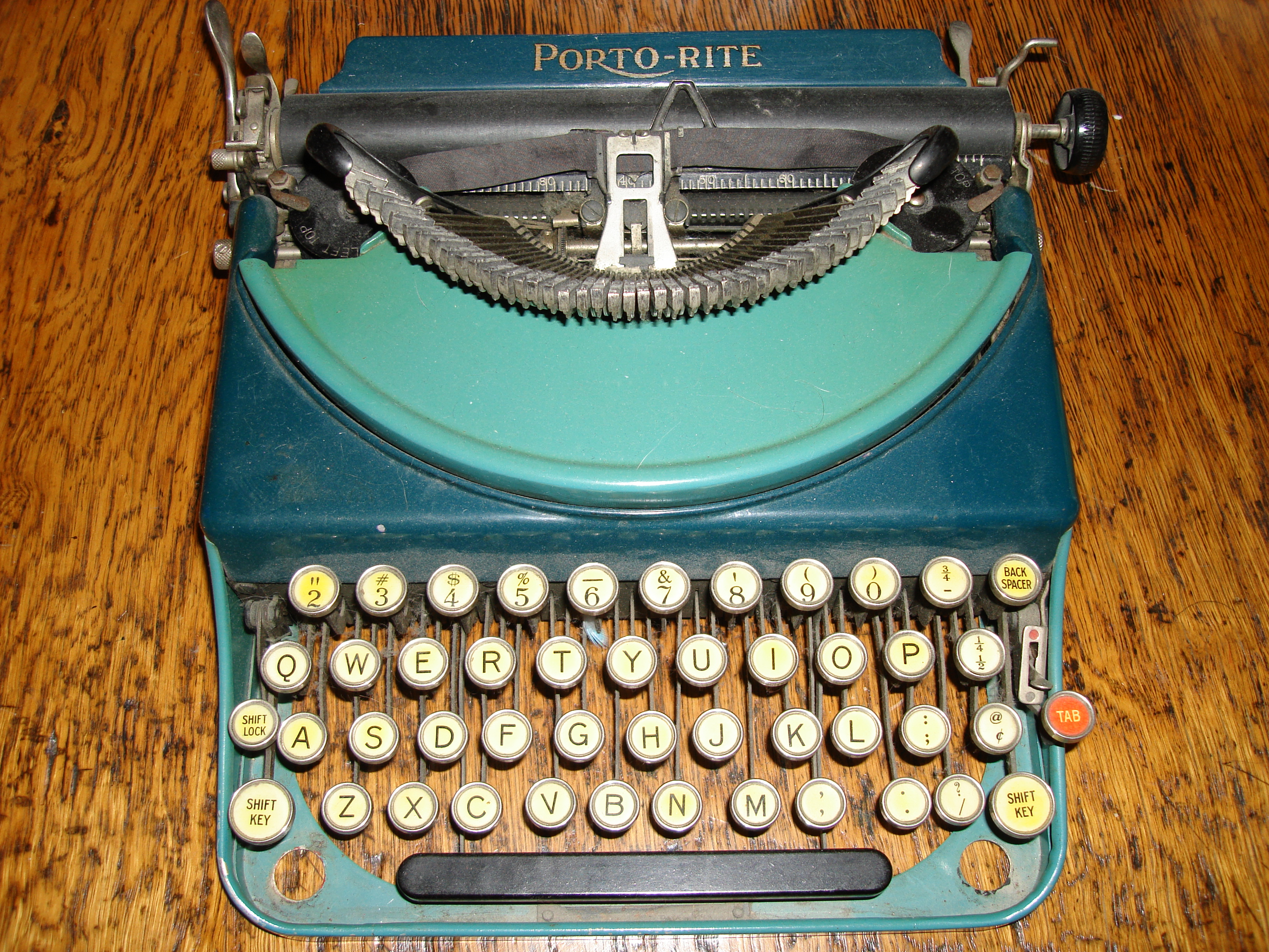 Porto-Rite portable typewriter